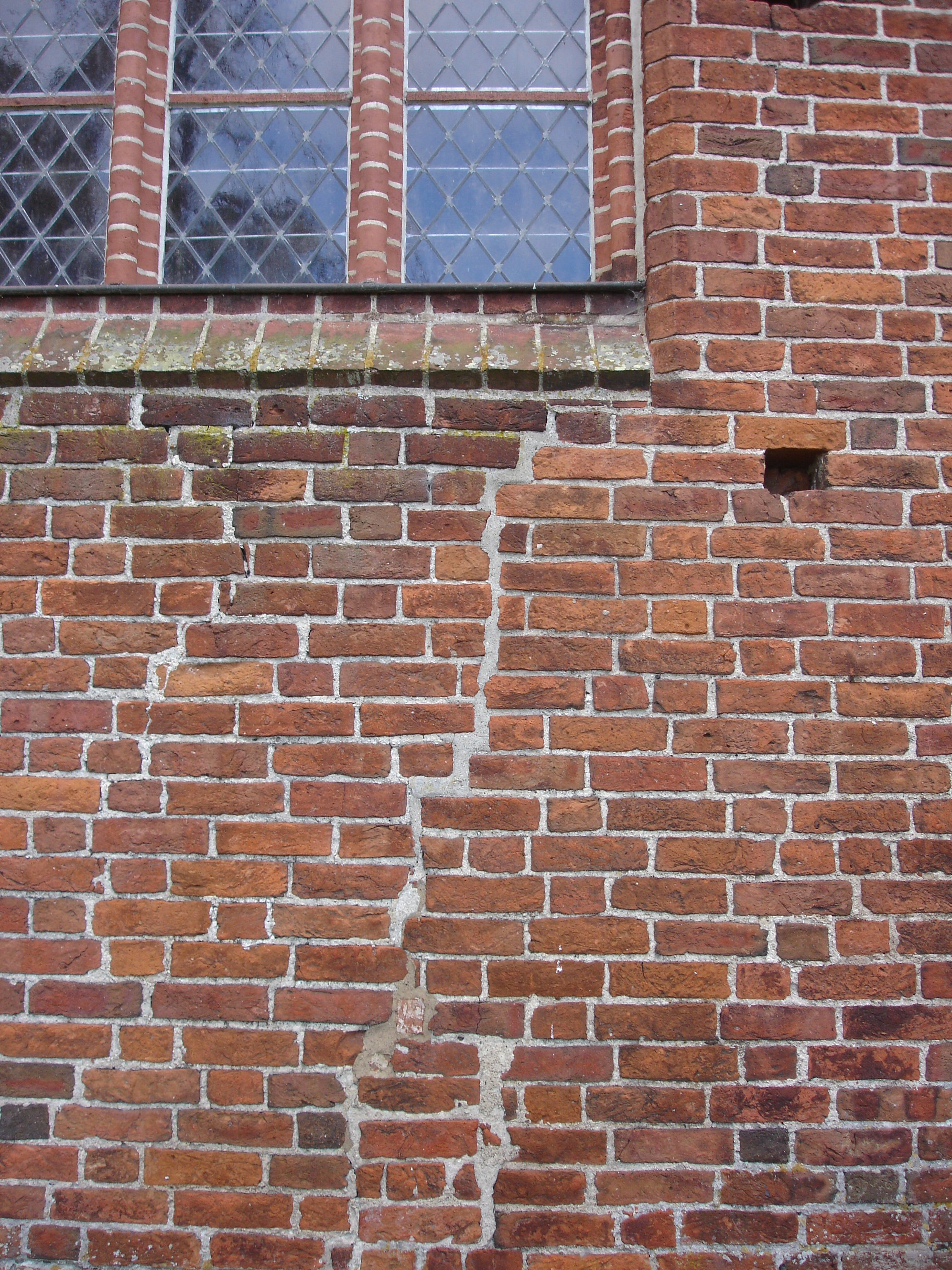 Church in Hohenkirchen, district Nordwestmecklenburg, Mecklenburg-Vorpommern, Germany